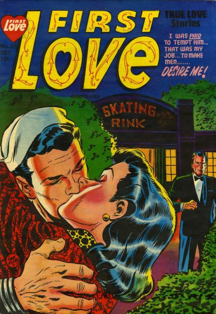 Comic book cover of First Love Illustrated #35 (December 1953)